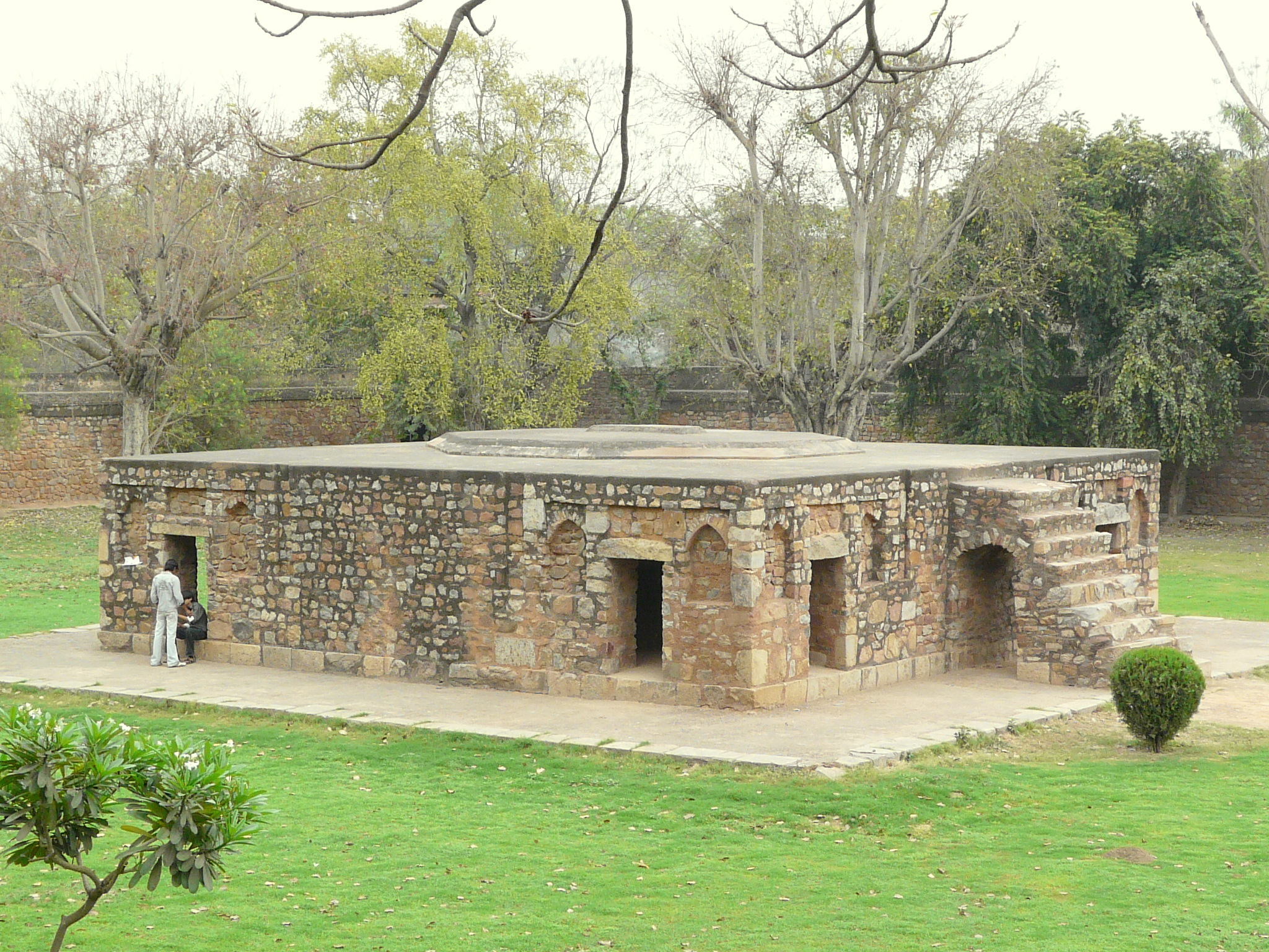 Bu Halima's tomb, near the Humayun's tomb complex, Delhi.